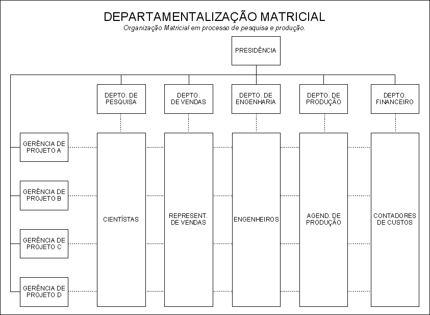 The Matrix Organization